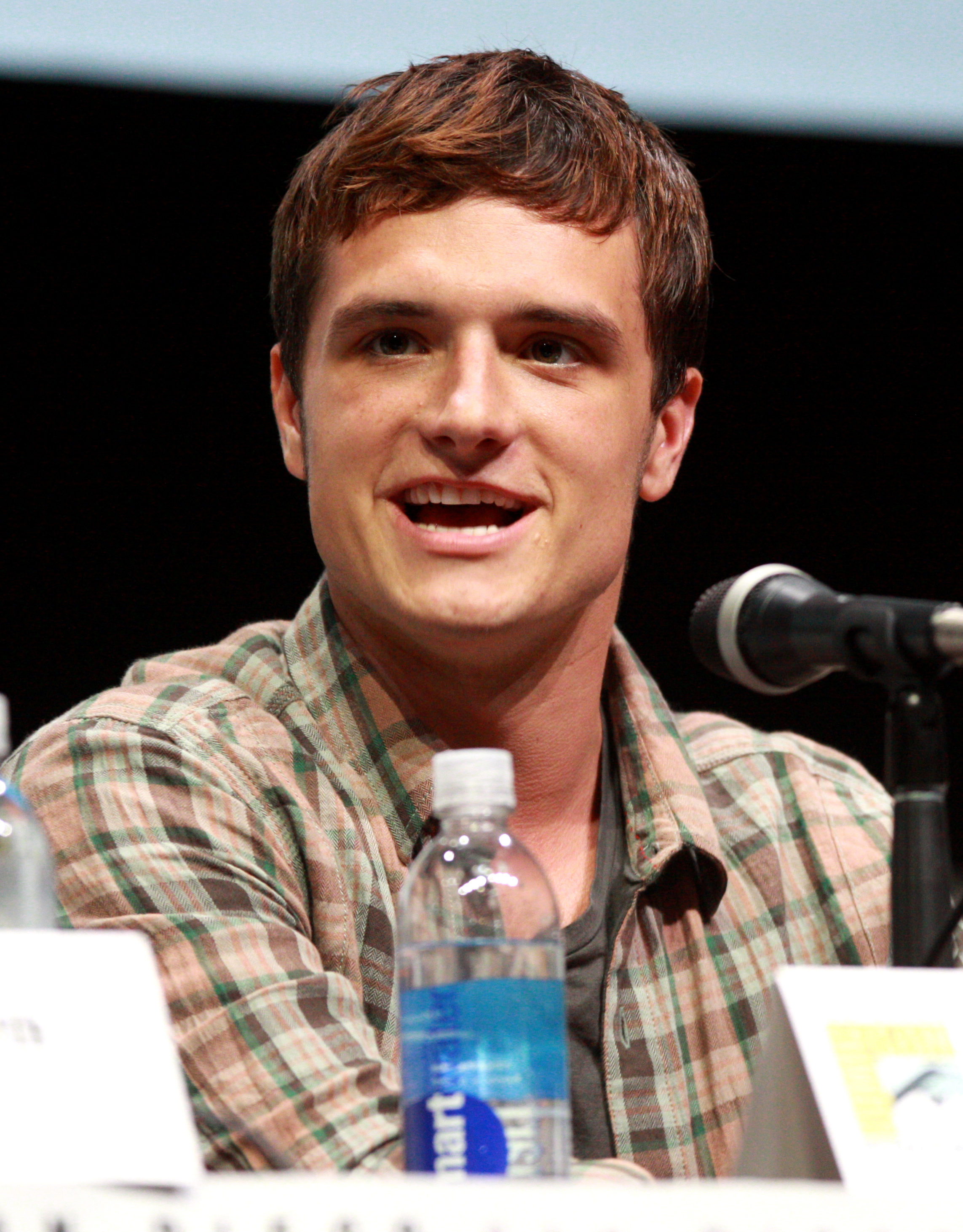 Josh Hutcherson at the 2013 San Diego Comic Con International in San Diego, California.